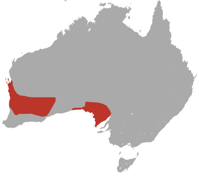 Little Long-tailed Dunnart (Sminthopsis dolichura) range